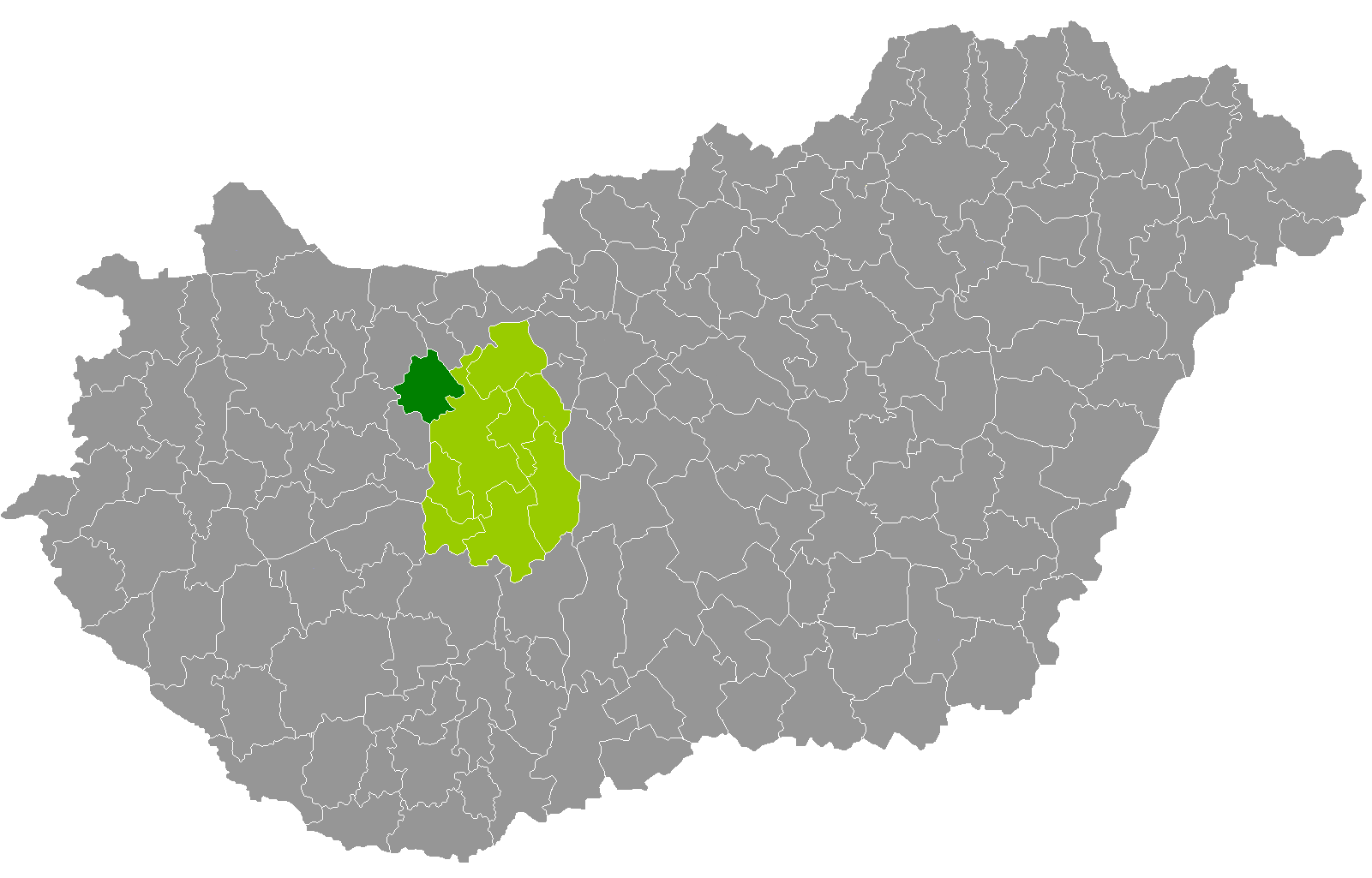 Location of Mór District, Fejér, Hungary